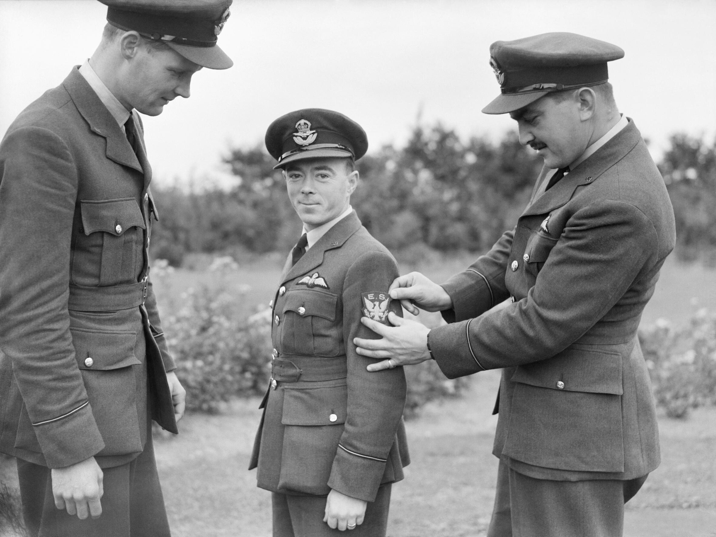 Three American pilots of No. 71 (Eagle) Squadron RAF, Pilot Officers G Tobin, V C 'Shorty' Keough, and A Mamedoff show off their new squadron badge at Church Fenton, Yorkshire, October 1940. Three American pilots of No. 71 (Eagle) Squadron RAF, Pilot Officers G Tobin of Los Angeles, V C 'Shorty' Keough of Brooklyn, New York and A Mamedoff of Thompson, Connecticut, show how their new squadron badge will look on Keogh's uniform at Church Fenton, Yorkshire. Mamedoff was formerly a stunt pilot in an air circus. Keough was a professional parachutist with 480 drops at the time this photograph was taken. Tobin was a commercial pilot who also did film work in Los Angeles.